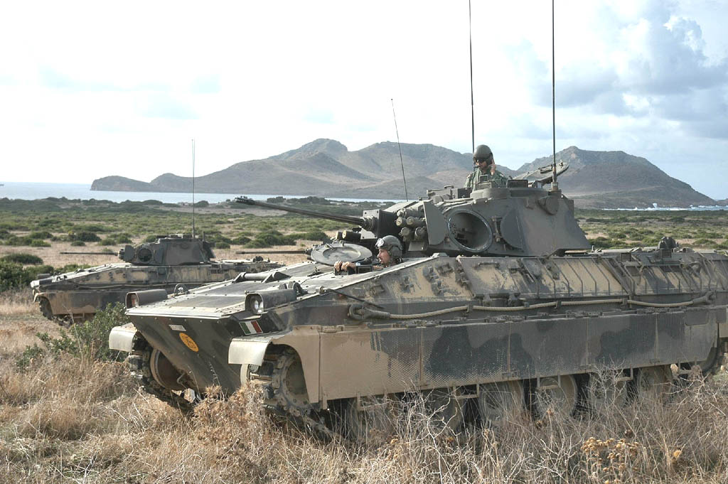 Dardo IFV; Italian Army. Downloaded from the official homepage of the Italian Army.